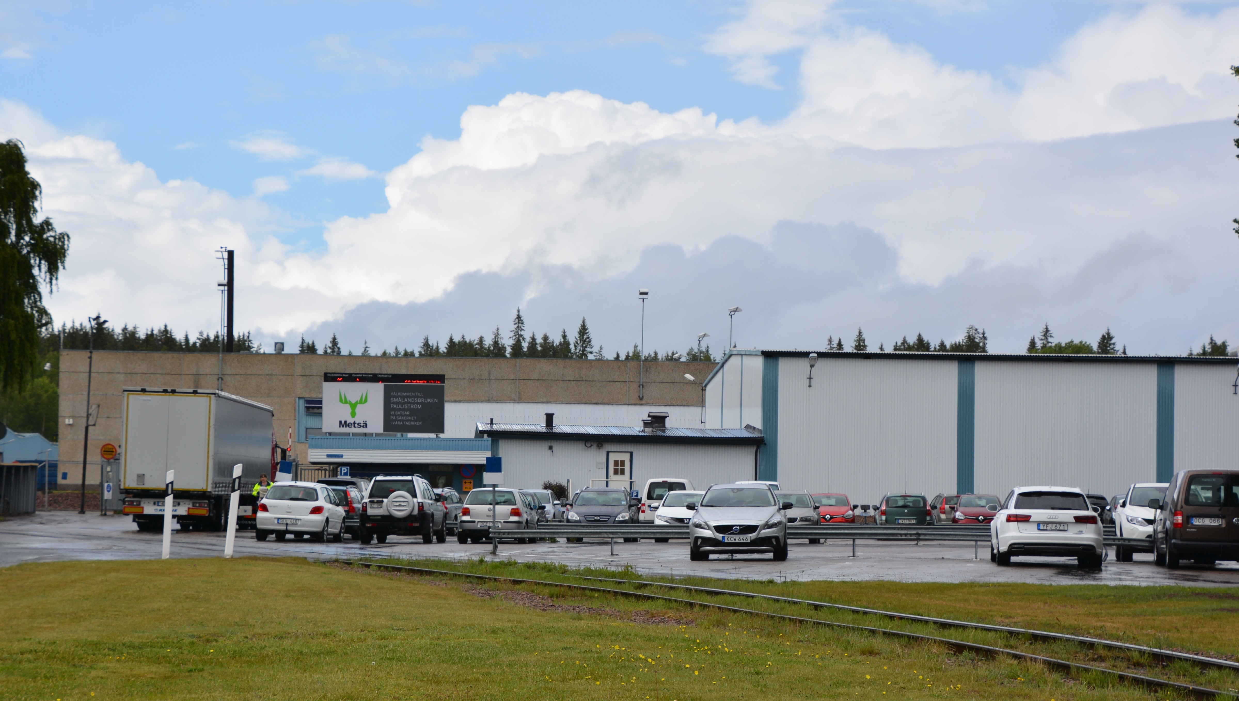 Pauliströms pappersbruk